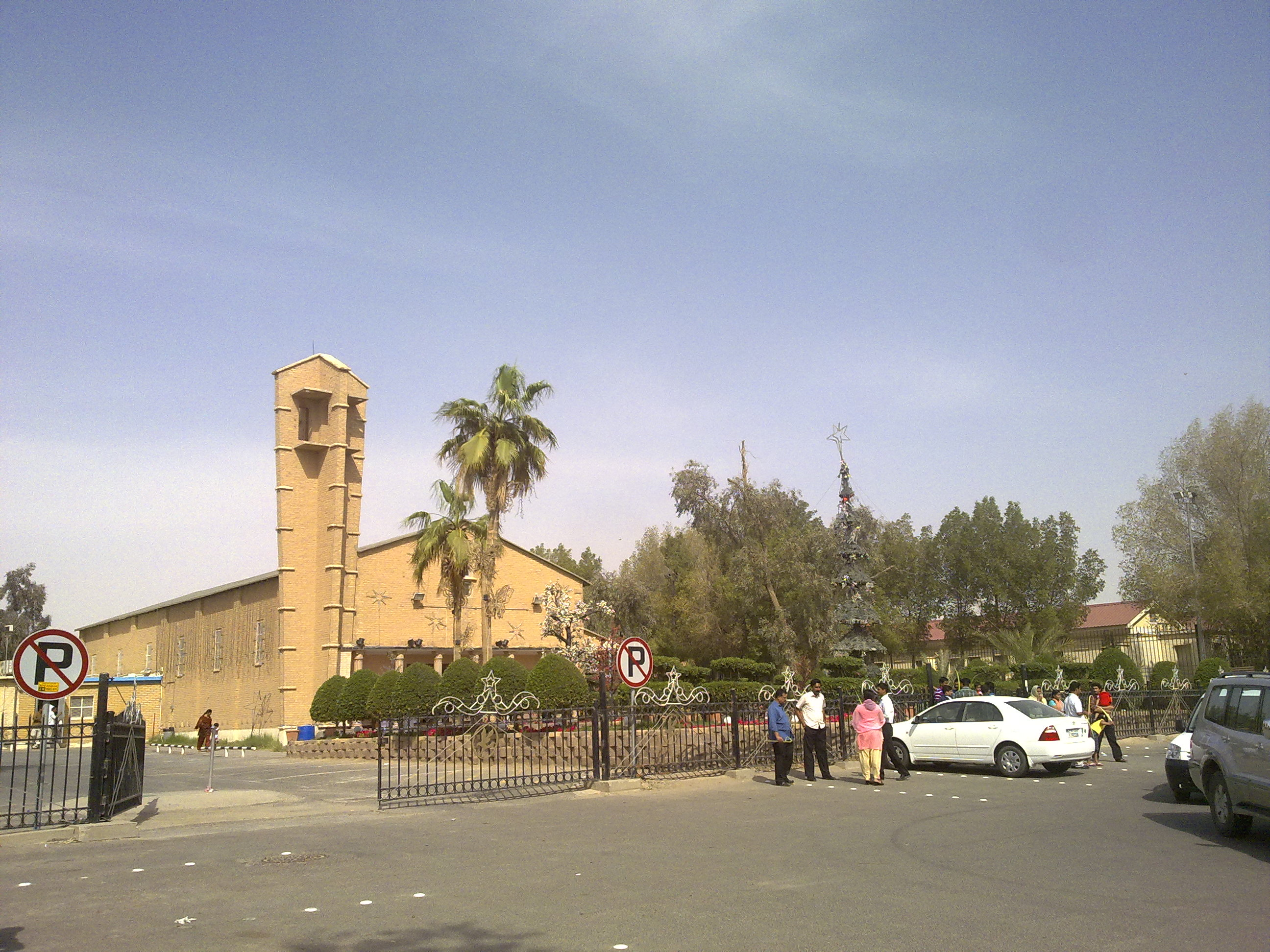 clicks by irvin calicut our lady of arabia parish al ahmadi. first church on kuwait